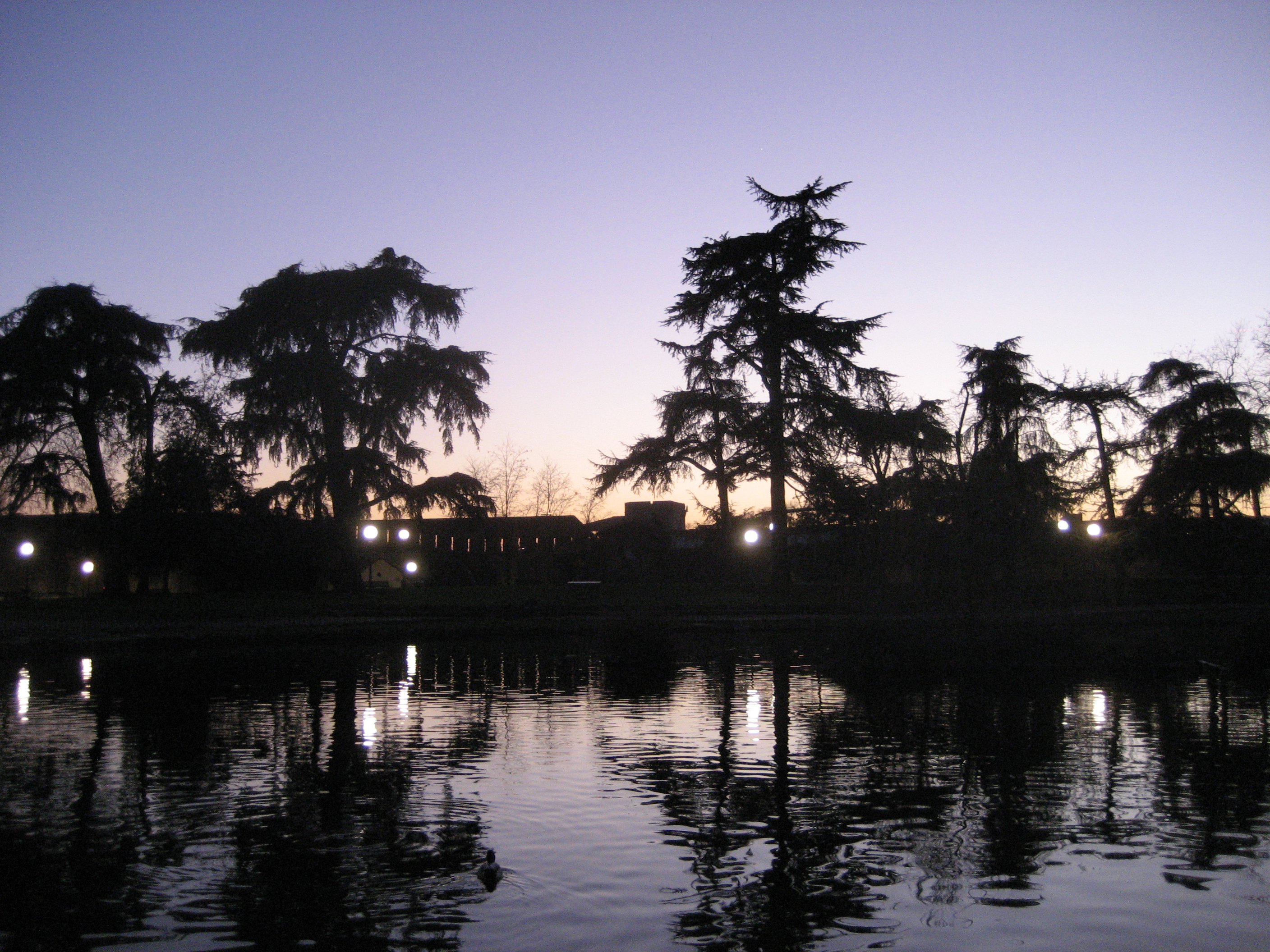 Pond at the garden near Fortezza da Basso in Firenze (Italy) in the evening